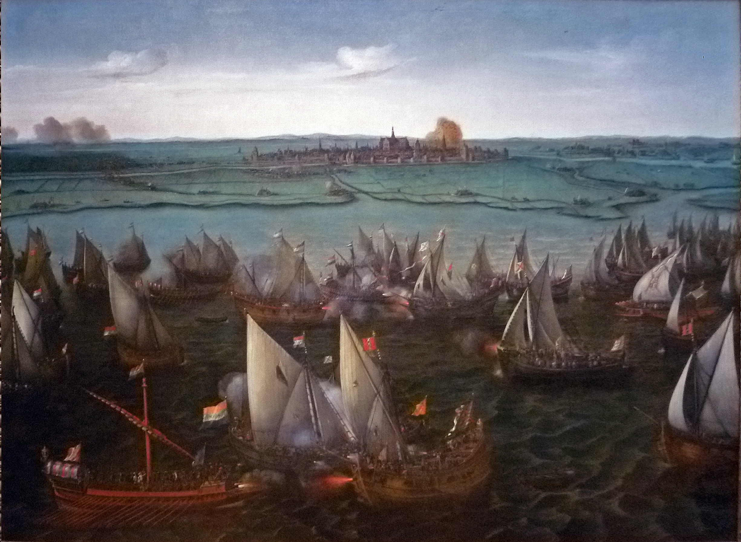 "Battle between Dutch and Spanish ships on the Haarlemmermeer" (in or after 1629); oil on canvas by Hendrik Cornelisz Vroom; Rijksmuseum, Amsterdam